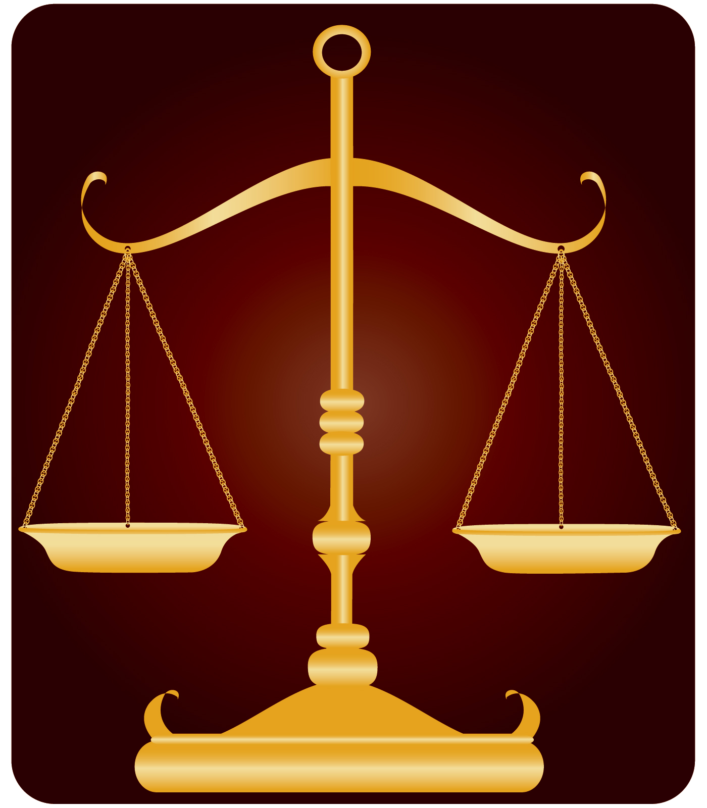 deontología